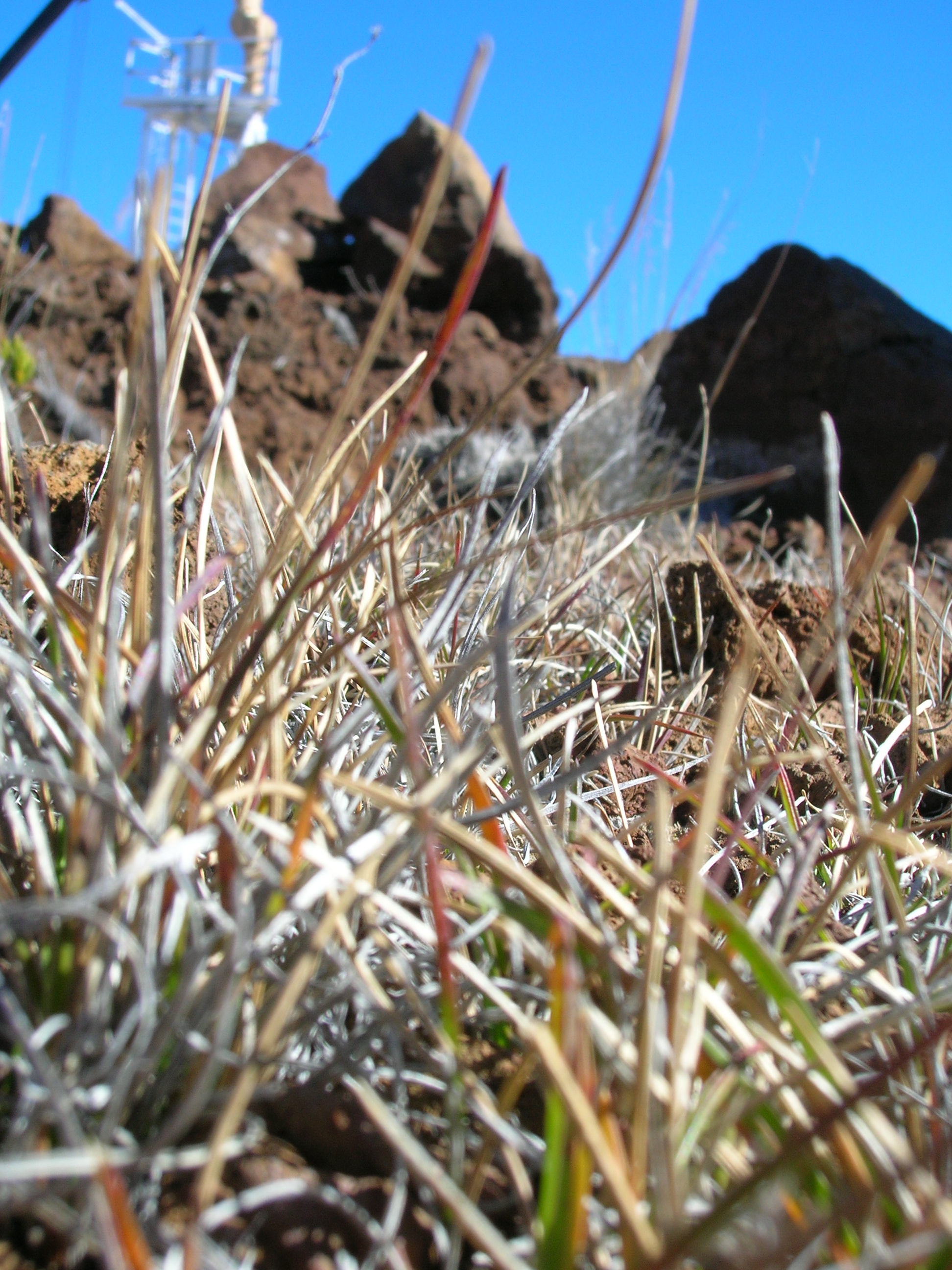 Poa pratensis (habit). Location: Maui, Science City